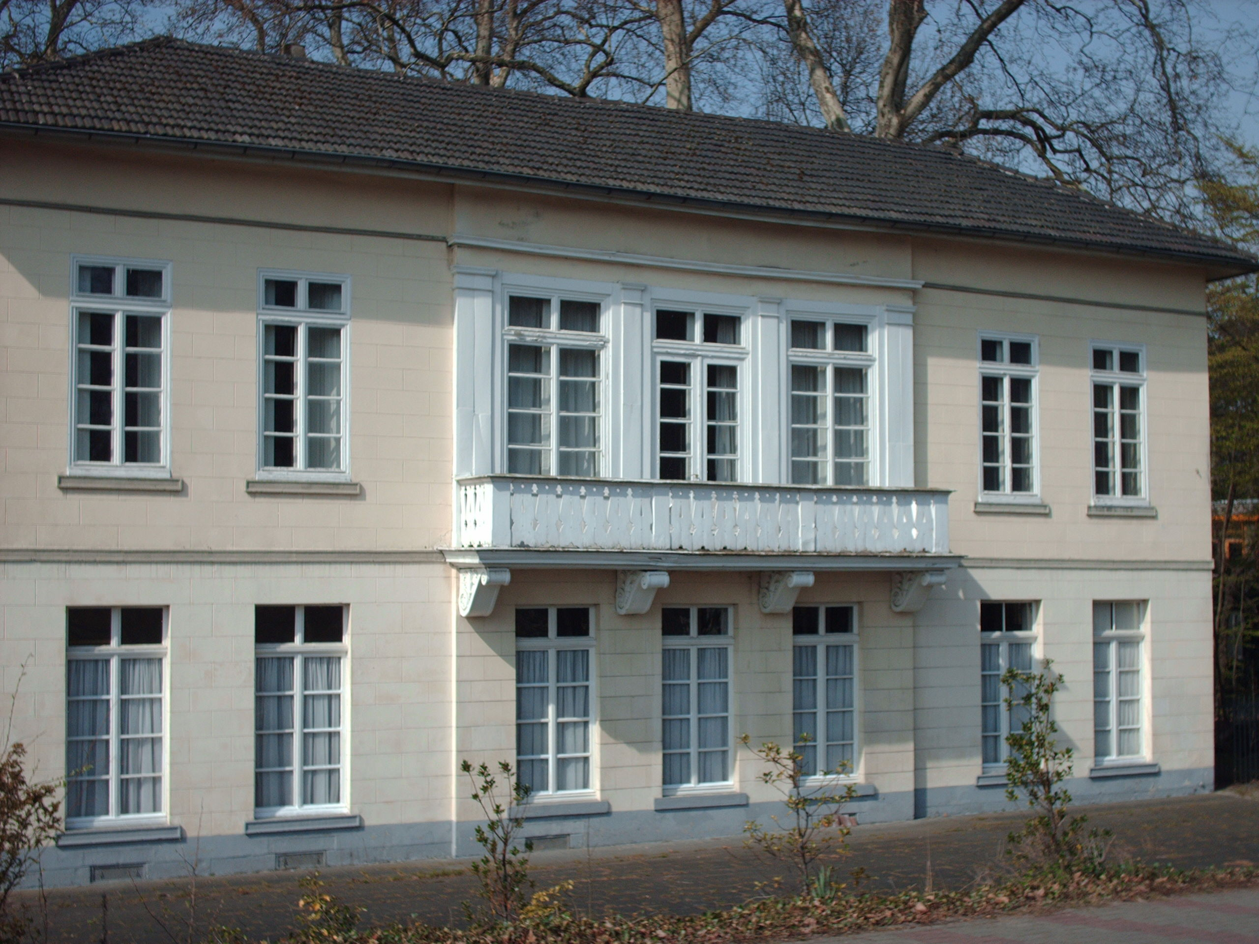 Haus Belvedere, Cologne, Germany check usage